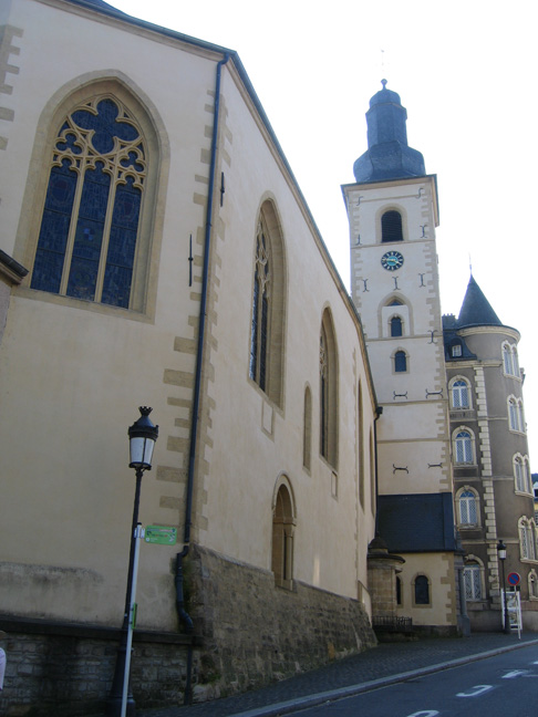 Photo of Saint Michael's Church (the city's oldest church, dating back to the castle chapel), near Bock Fiels